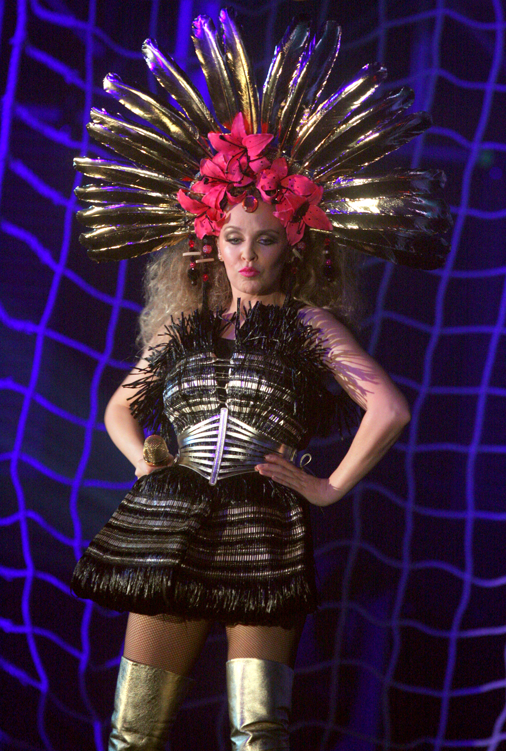 Kylie Minogue Mardi Gras Harbour Party 2012.